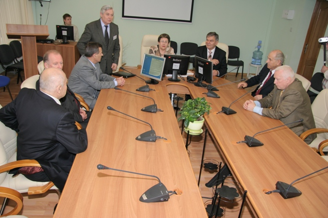 Video-conference in a conference hall in School of the Future (Yalta)